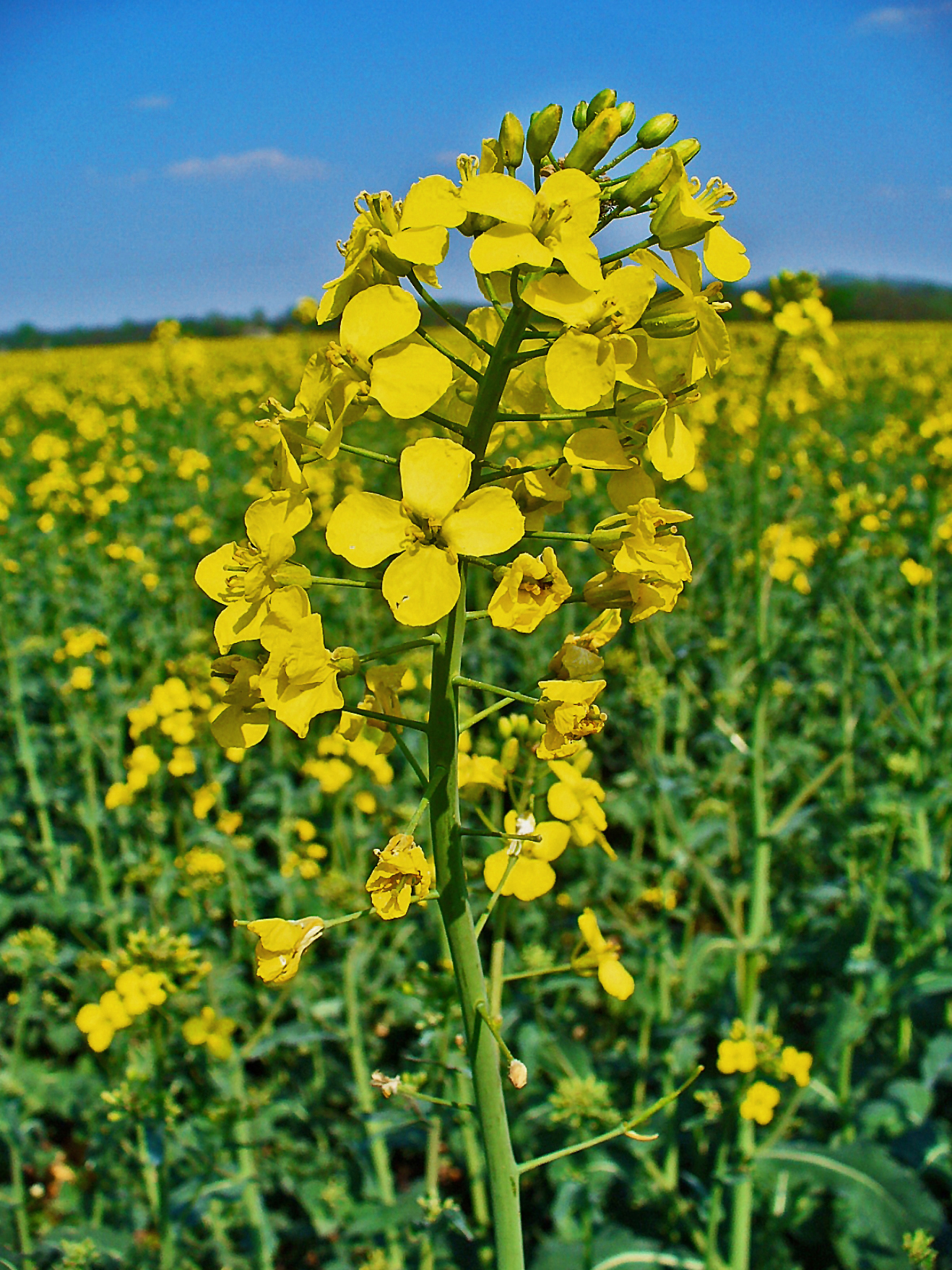 Brassica napus, Brassicaceae, Rapeseed, oilseed rape, inflorescence; Stutensee, Germany. The fresh plants are used in homeopathy as remedy: Brassica napus (Brass.)